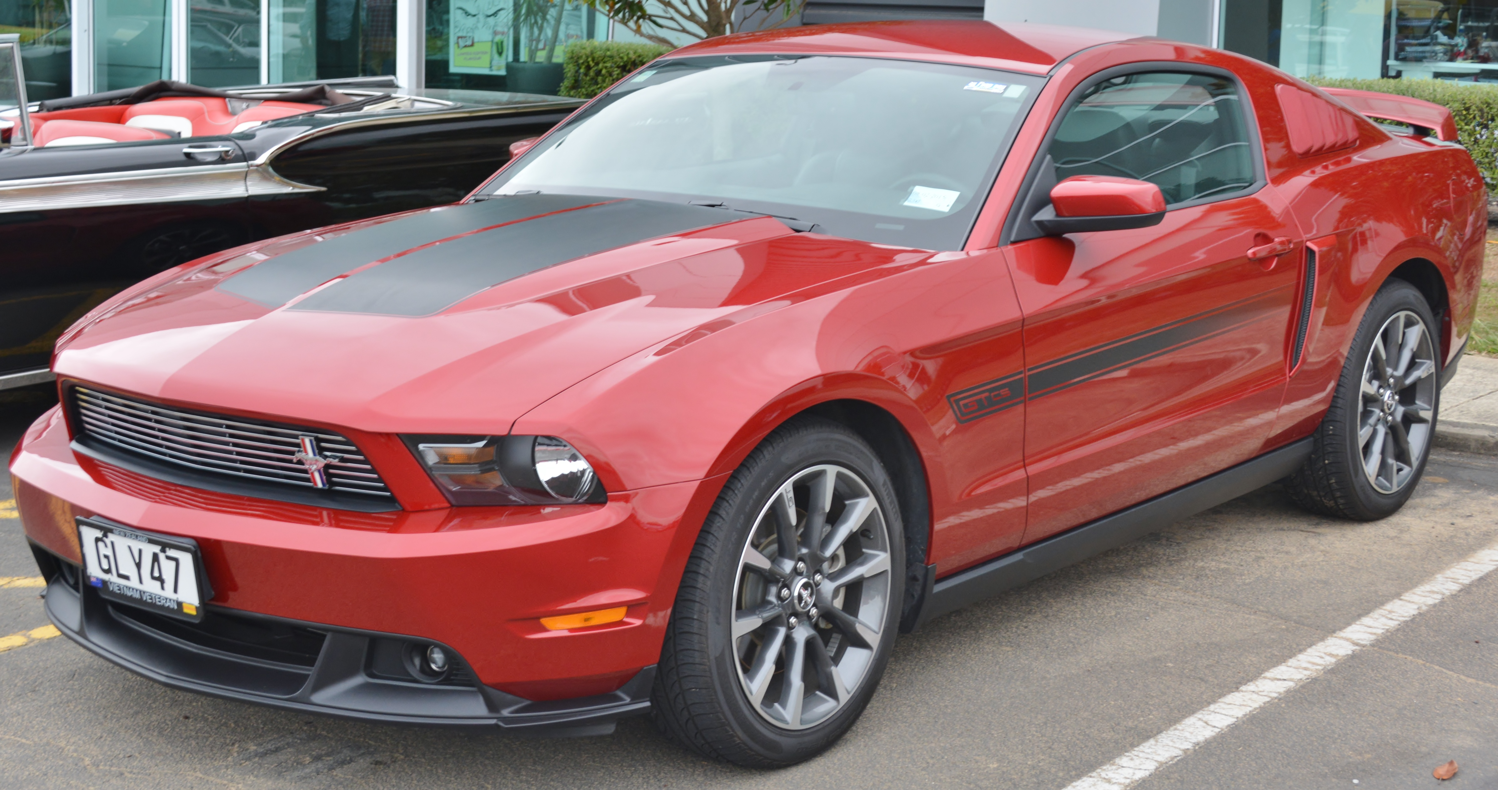 South Auckland,New Zealand